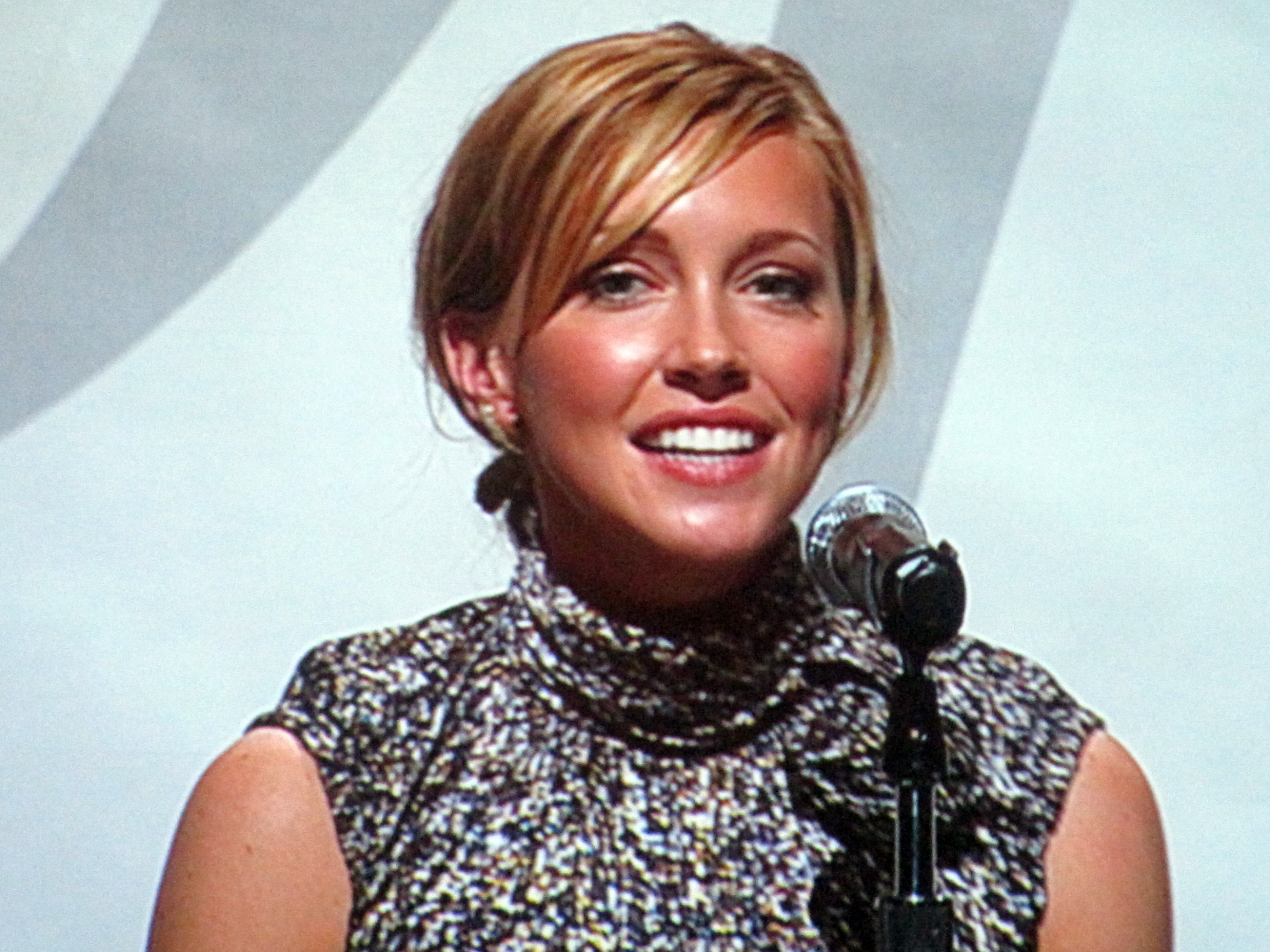 Actress Katie Cassidy participating in the panel for A Nightmare on Elm Street at WonderCon 2010.